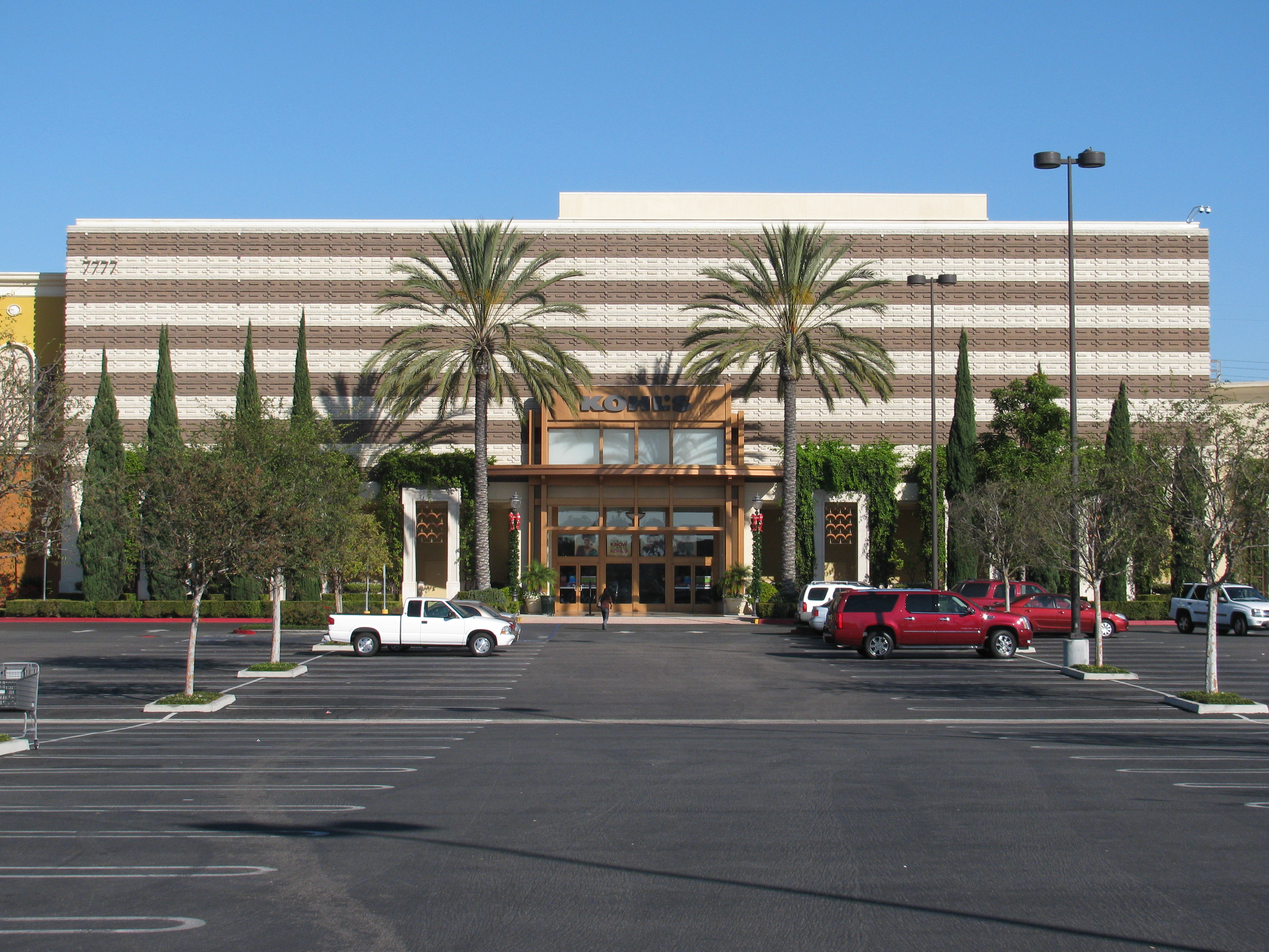 Kohl's department store at Bella Terra mall in Huntington Beach, California. This building was built in 1966 as an anchor to the former Huntington Beach Mall and served as a Broadway department store until 1996.